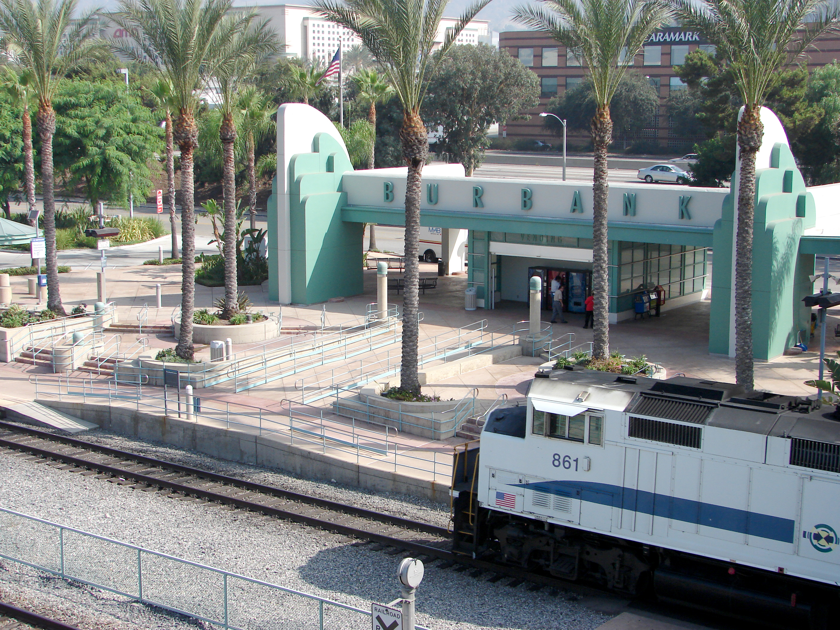 Burbank's Metrolink train station, on the site of the former Southern Pacific station. Directly under the Olive Avenue bridge, In all its neo-deco glory.